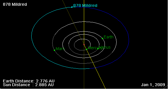 878 Mildred orbit, and his position on 01 Jan 2009 (NASA Orbit Viewer applet)